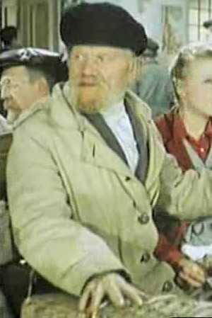 Gavriil Belov as a passenger in The Train Goes East (1947)